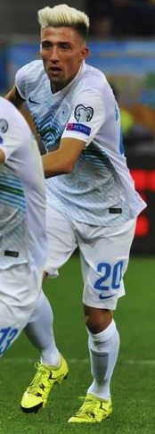 Kevin Kampl